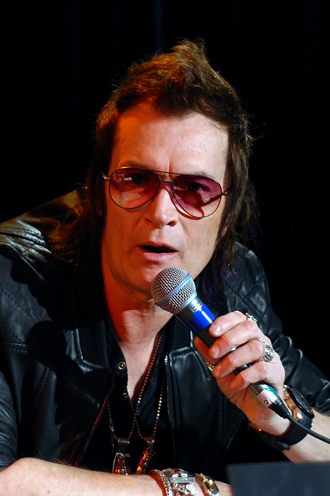 Glenn Hughes, West Hollywood, CA on March 1, 2012 - Photo by Glenn Francis of